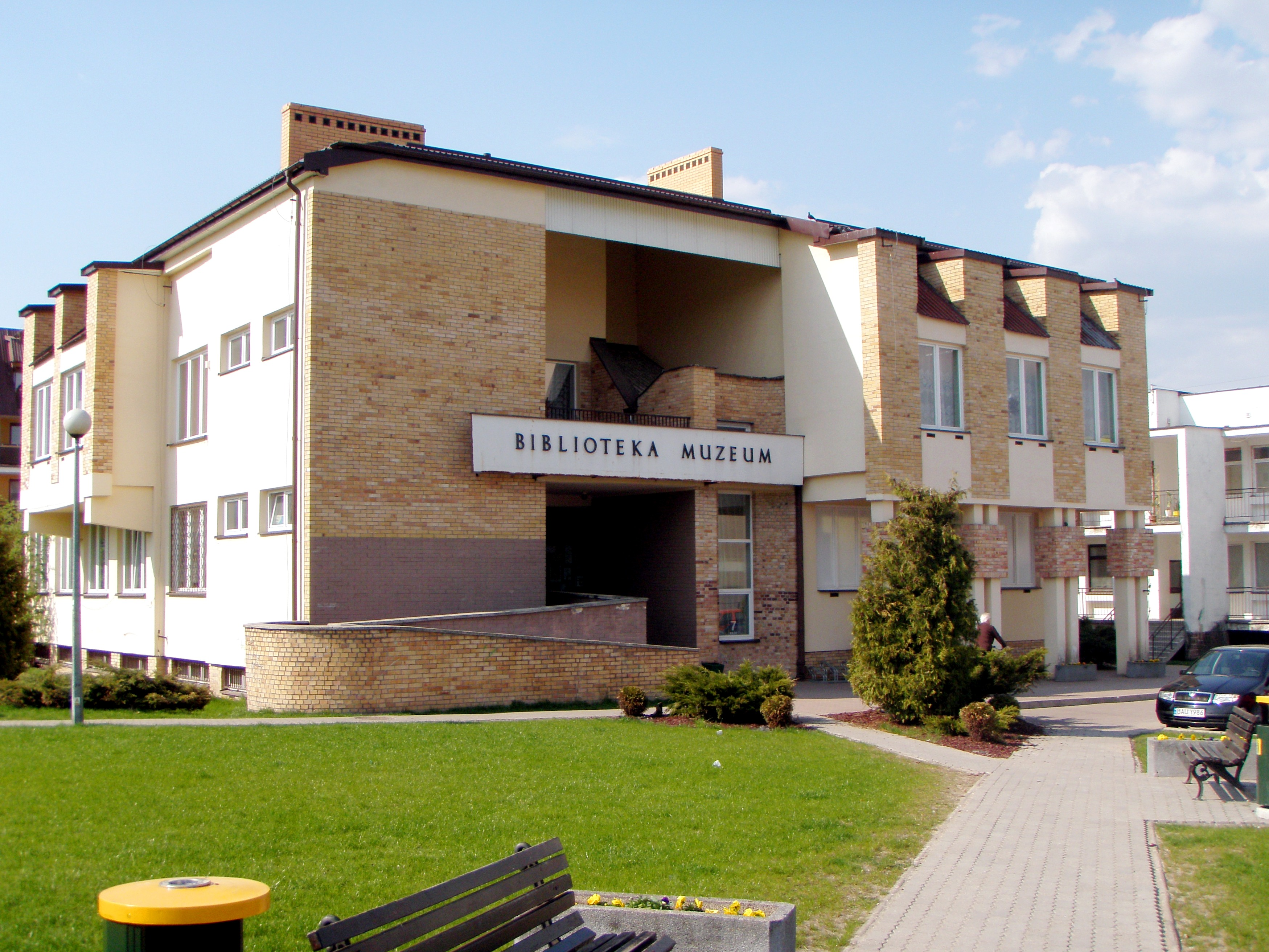 Public Library and Museum in Augustów (Poland).